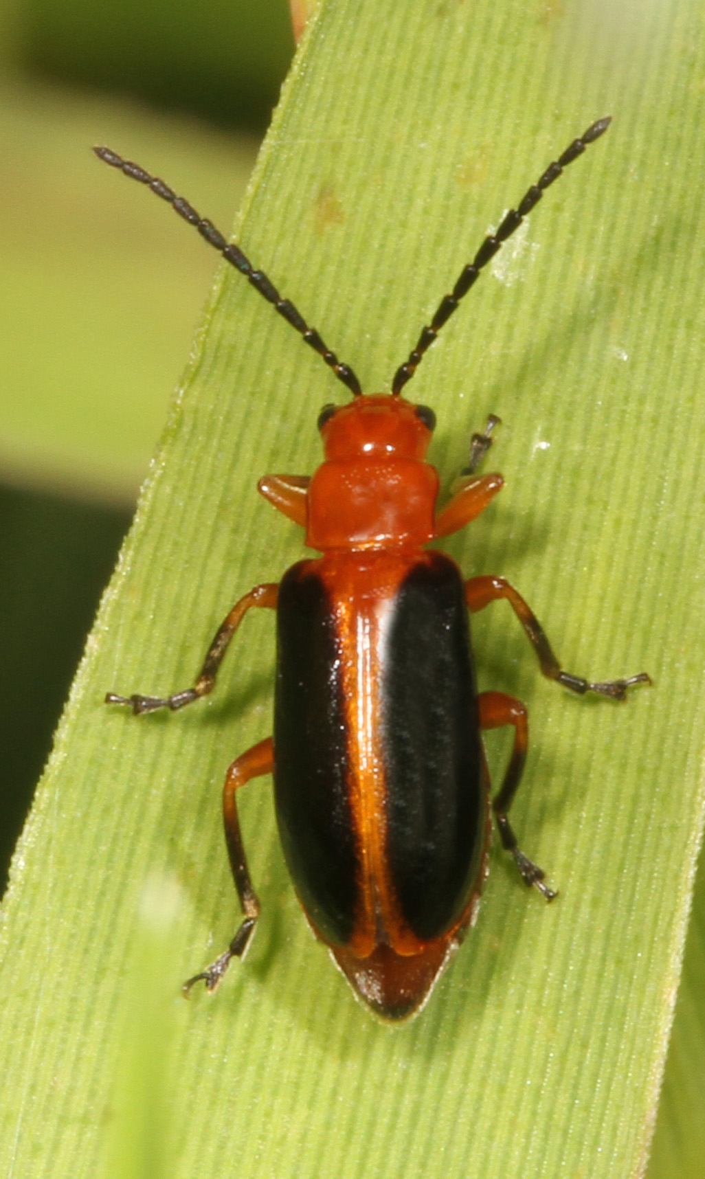 Leaf Beetle - Philobrotica limbata, Meadowood Farm SRMA, Mason Neck, Virginia.